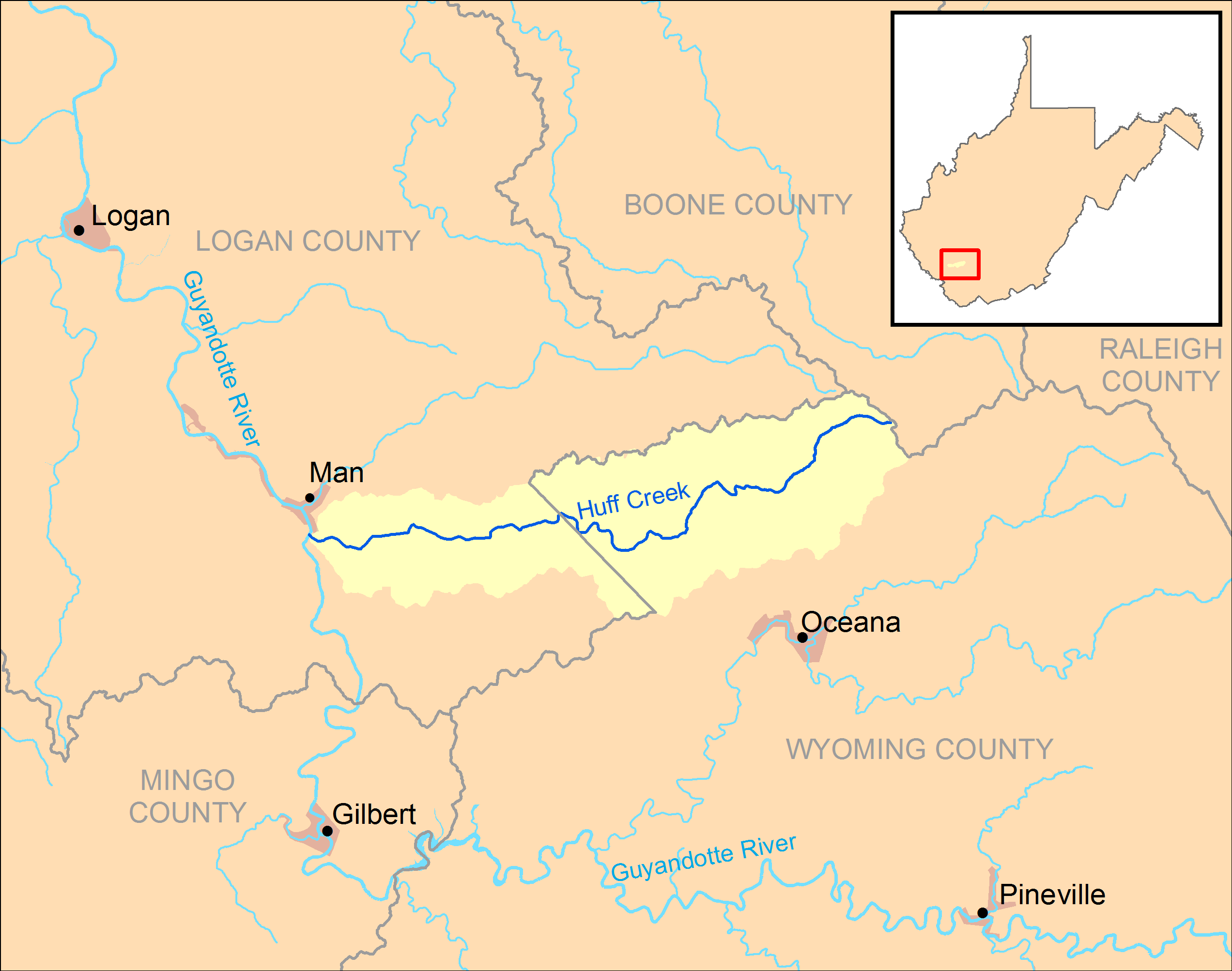 A map of Huff Creek and its watershed (USGS HUC-12 050701010504) in Logan and Wyoming counties, West Virginia.